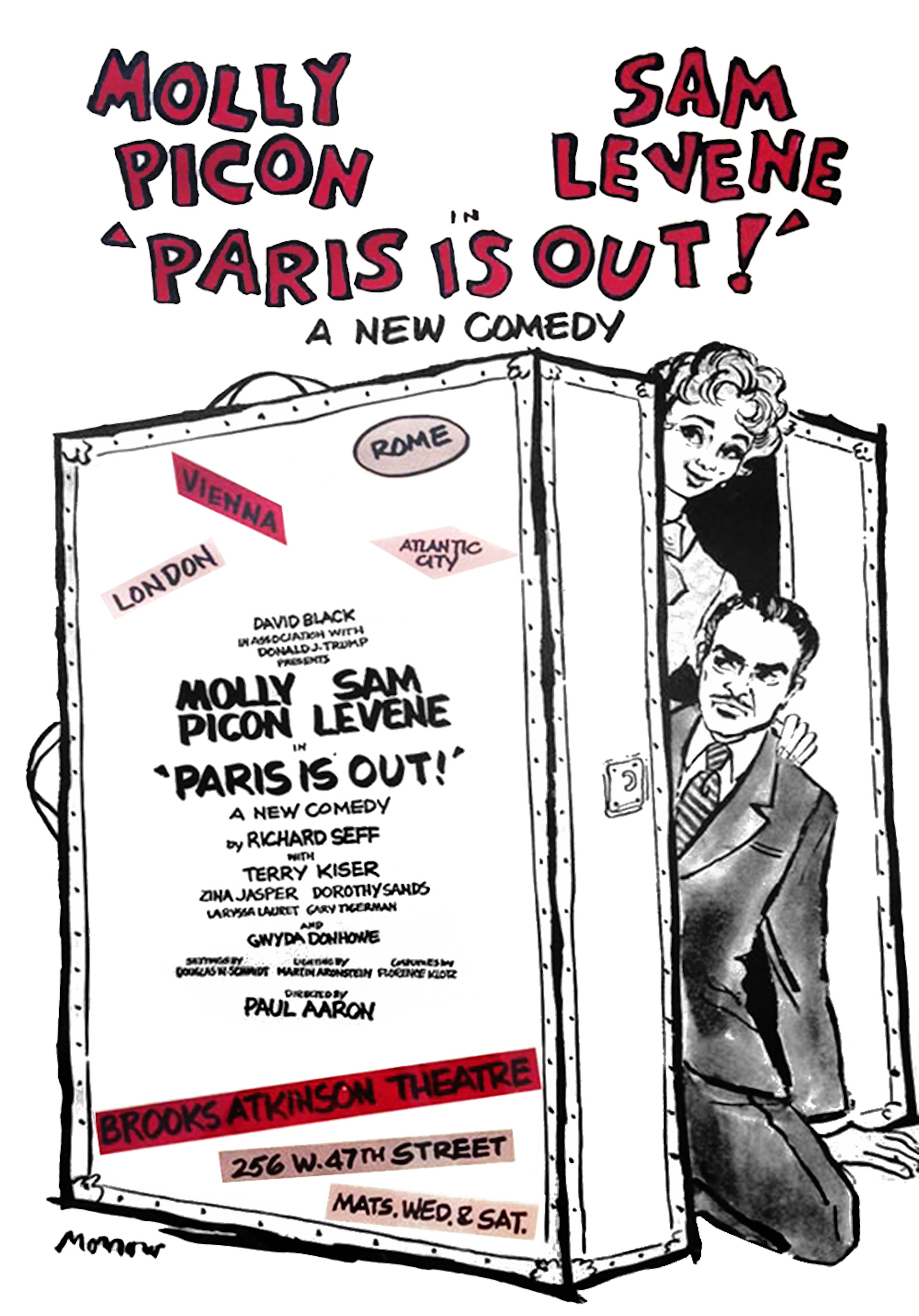 Flyer for Paris Is Out, 1970 Broadway comedy starring Molly Picon & Sam Levene produced by Donald J. Trump at the Brooks Atkinson Theatre